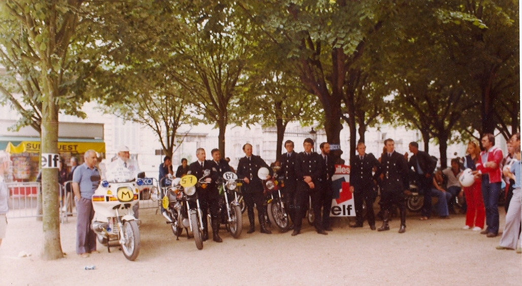 British police team in Pau for the 1979 Rallye Des Pyrenees also known as the Circuit Des Pyrenees and formerly the Pau-San Sebastian Rally. The motorcycle to the left with the 'M' plate is a rally marshall who is in fact the late Neale Shilton (in white cap), formerly a sales manager for Triumph, Norton and BMW motorcycles. 1981 Rallye winner (750cc and over), Tony Beaumont (with crossed hands)is centre front of the uniformed group.